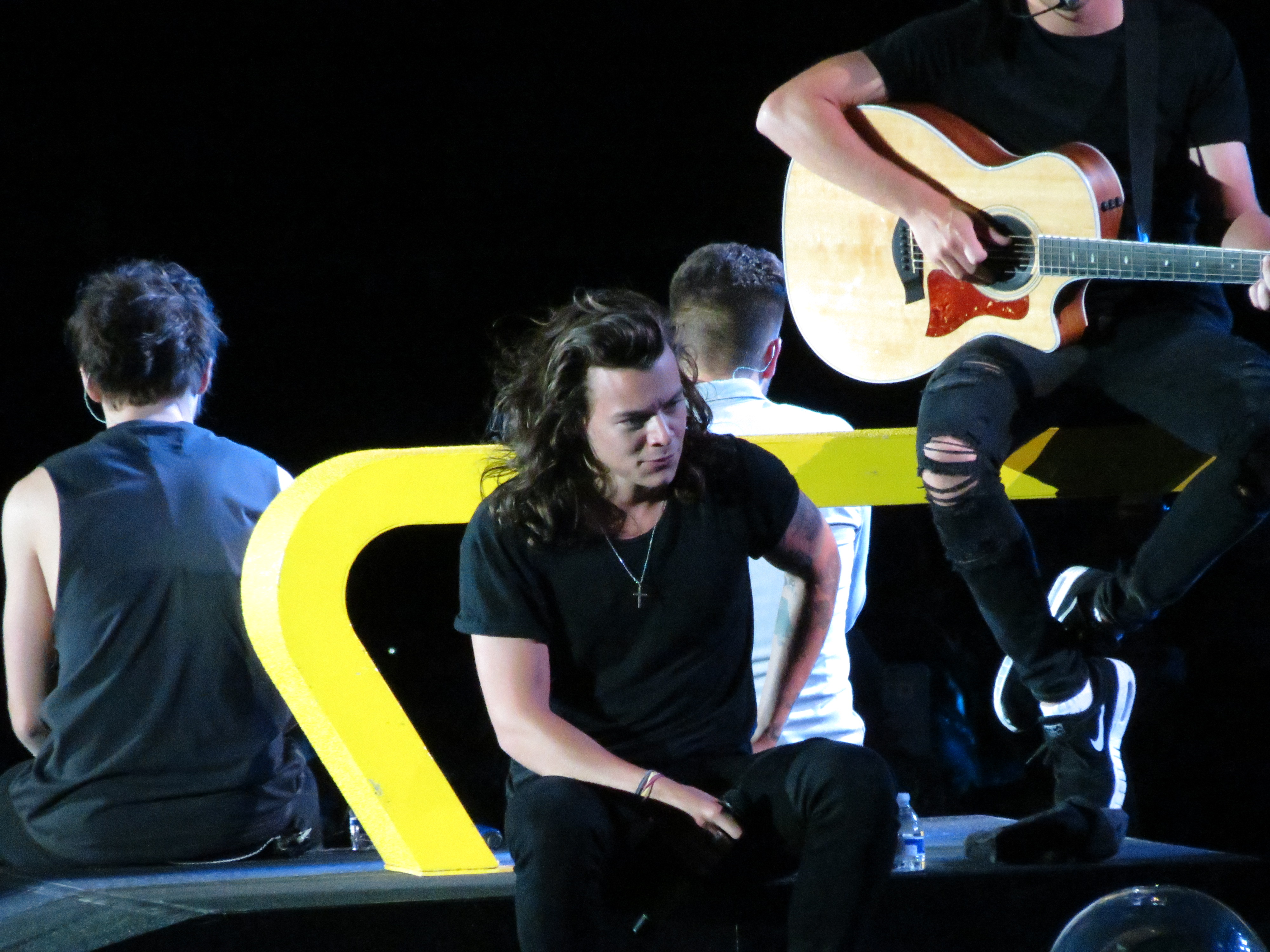 One Direction performing at Soldier Field in Chicago on 23 August 2015.